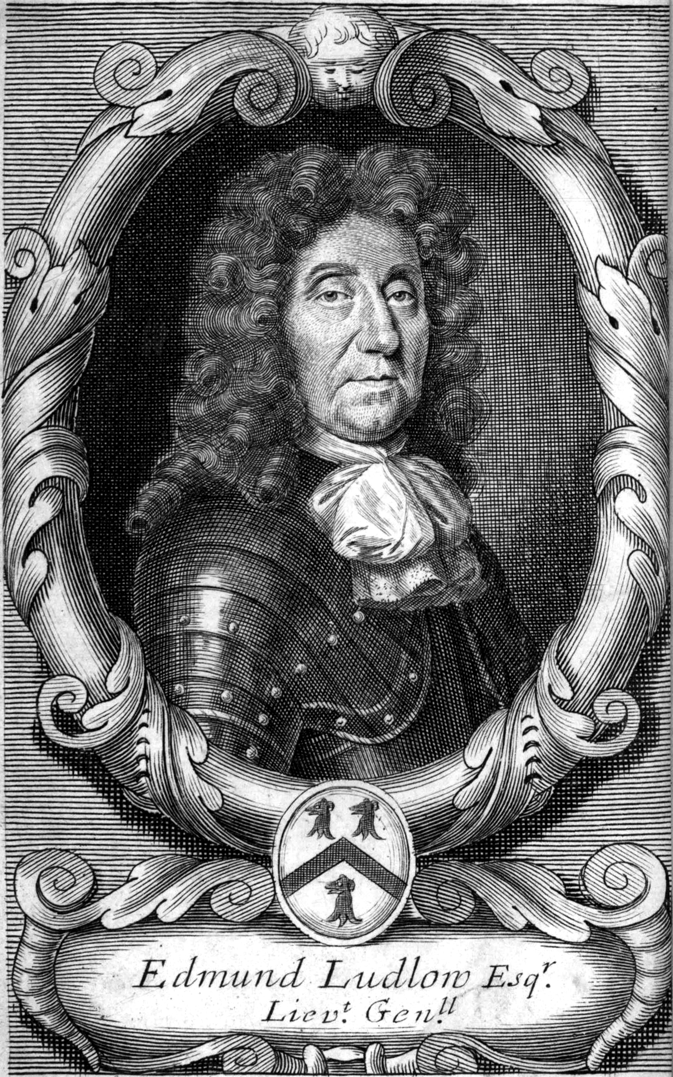 An engraving of Edmund Ludlow, taken from the first edition of the Memoirs of Edmund Ludlow, 1698.